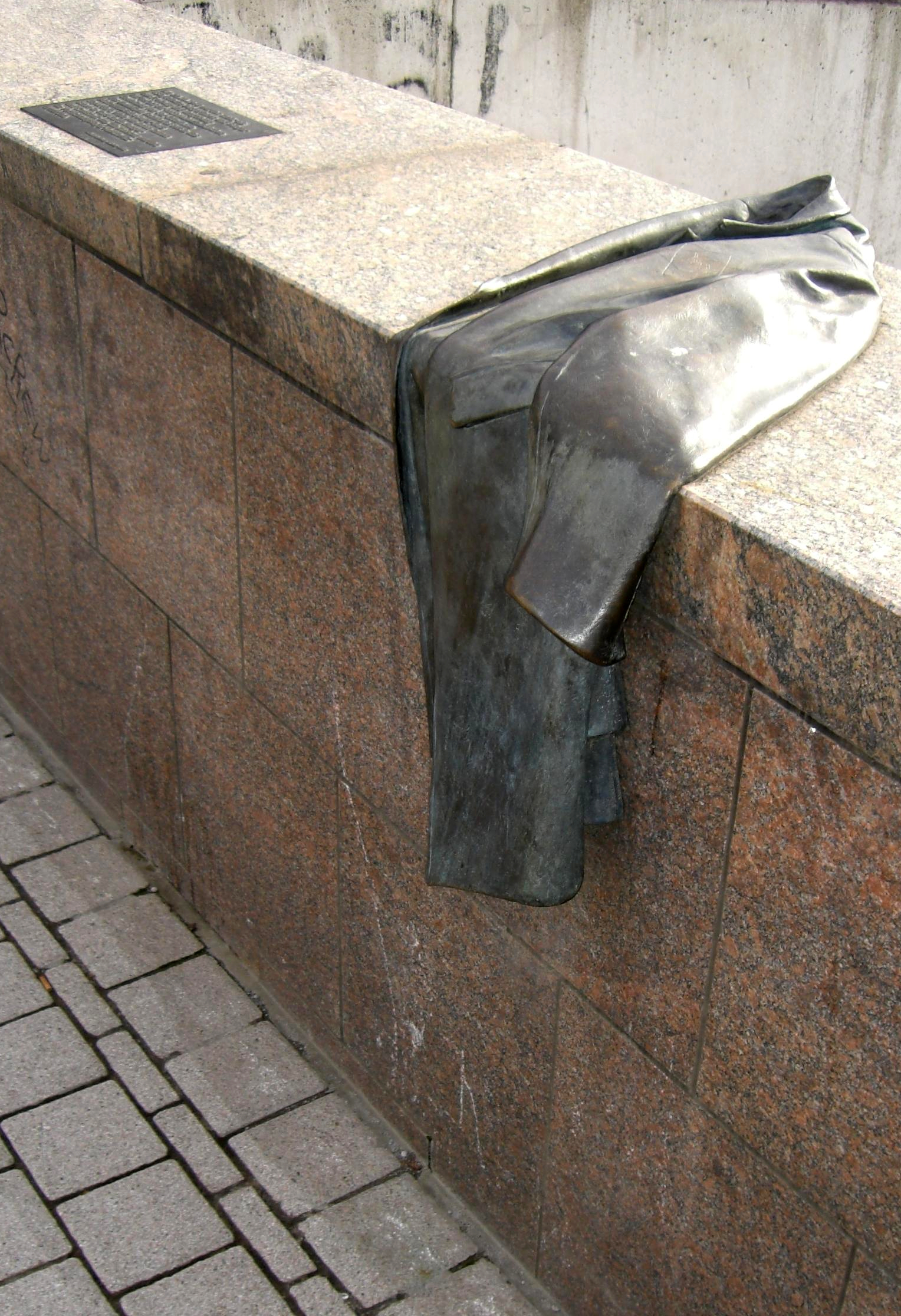 Memorial deportation Freiburg im Breisgau to Gurs 22.10.1940 by Birgit Stauch: Coat left behind, 2003